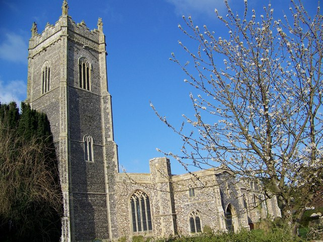 St Andrew's Church, Walberswick The new church was built in the west end of the south aisle of the old church.